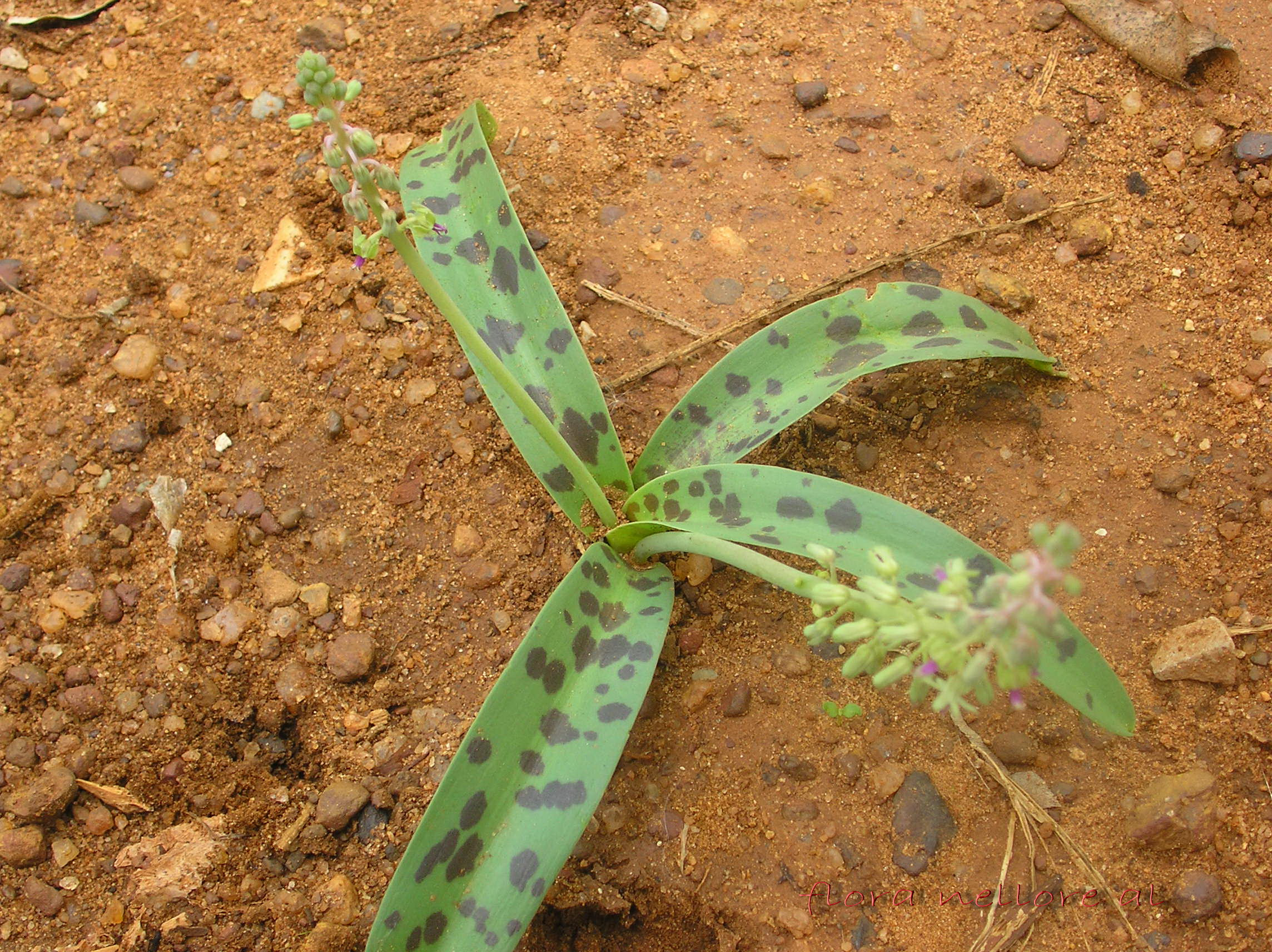 Fy: Liliaceae Local name(Telugu)Nakkeragadda; adavitellagadda. Distribution: Common among grasses on the floor of scrubs, Found in India, and some Asian Countries. 10-15 cm herb with a perennial tunicated bulb,(Bulb ovoid1.5-4cm across) leaves radicle, succulent , purplish blotches on the upper surface of the leaf is an identificating feature. The apex of leaf on touch with soil produces new plants from advetitious bud. leaves (Reproductory lef)Scape 5-10cm tall, Flowers pinkish-green on racemes,Perianth 6 lobes, persistent, stamens 6, anthers versetile, ovary sessile, 3 celled, Capsule globose, purplish brown